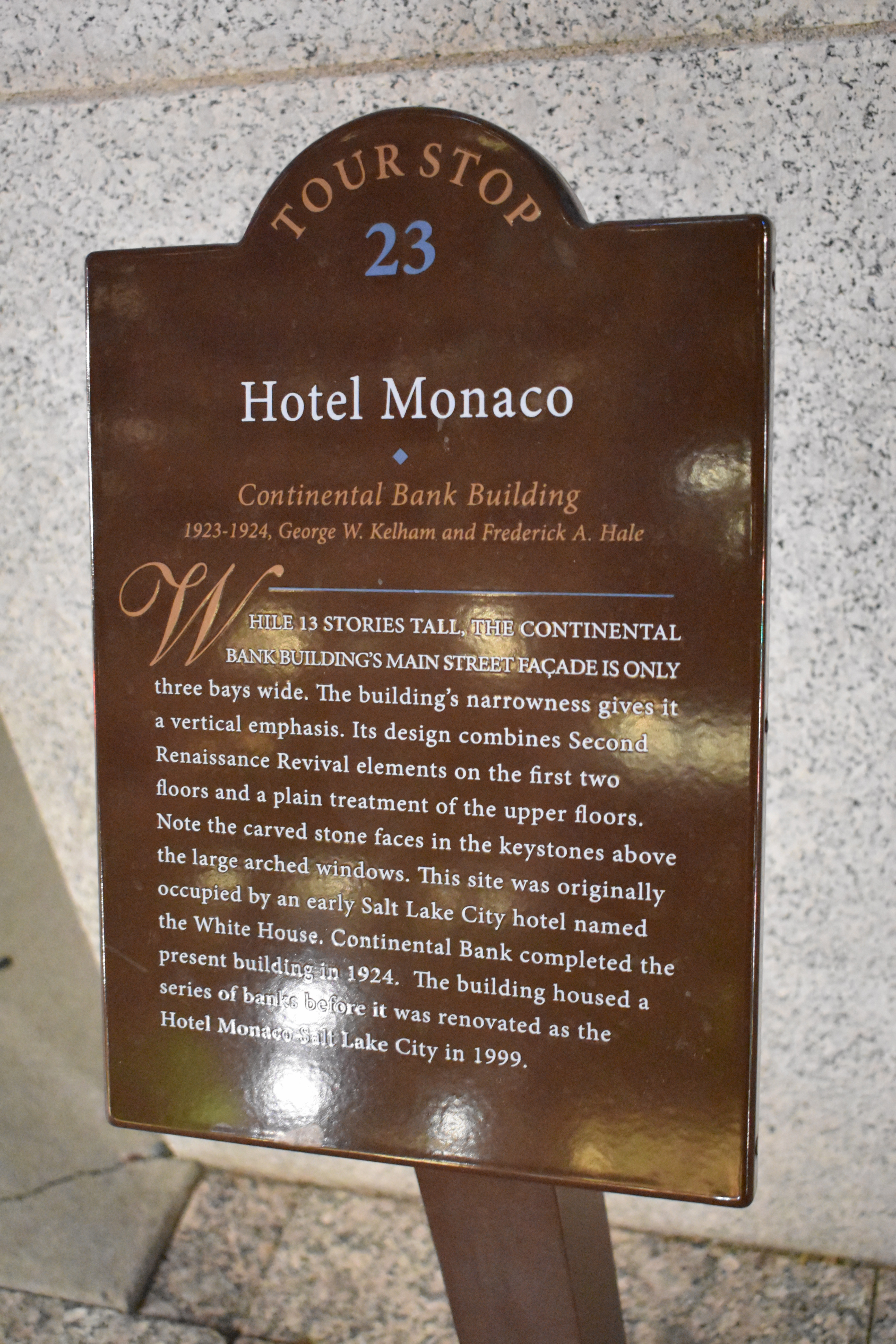 The Continental Bank Building (1924) in Salt Lake City, also known as the Hotel Monaco (1999), is listed on the National Register of Historic Places.